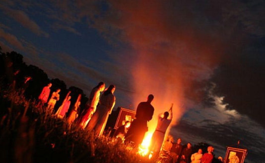 Rodnover ceremony in Poland.